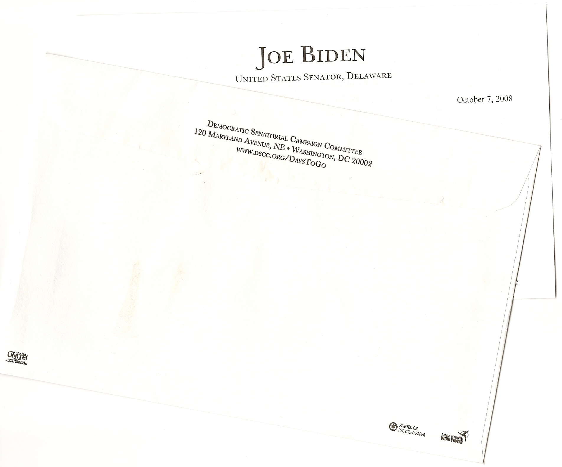 Typical letter material sent out by DSCC during 2008 congressional general election.